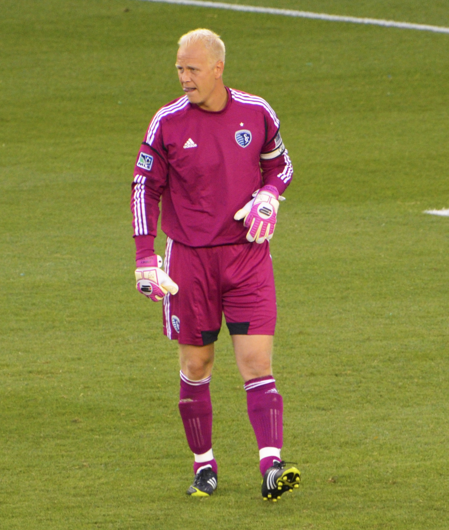 Jimmy Nielsen, Sporting KC Goalkeeper versus the Houston Dynamo's on July 7, 2012 in Kansas City, Kansas.